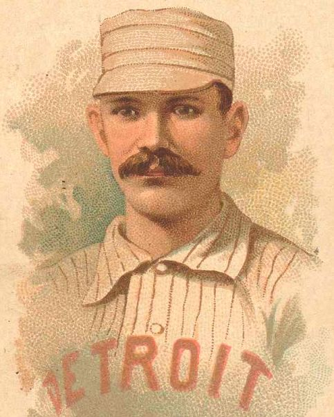 Cropped image from 19th Century Baseball card of Charlie Getzein.